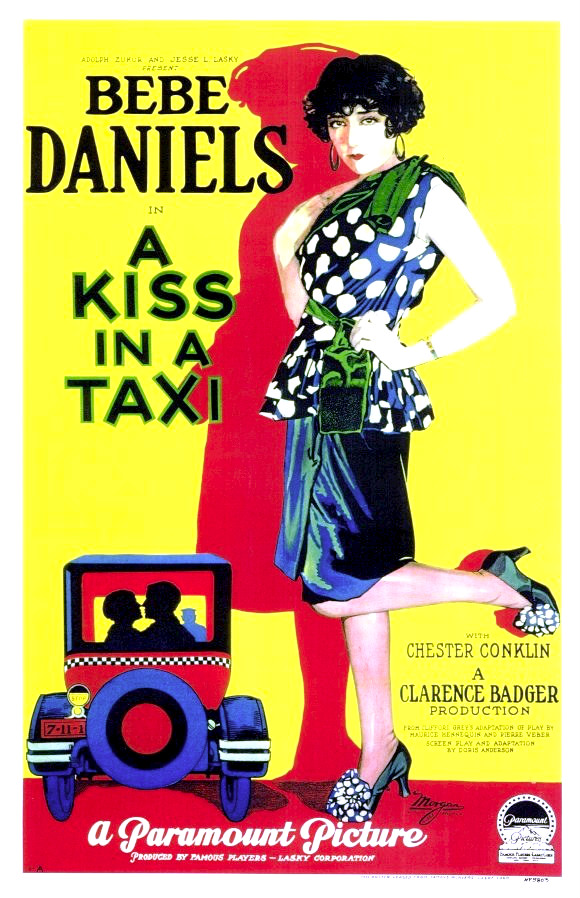 Poster for the 1927 film A Kiss in a Taxi. There are no copyright marks on the item. At lower left is an "A". At lower right is This poster leased from Paramount Famous Players Lasky Corp.